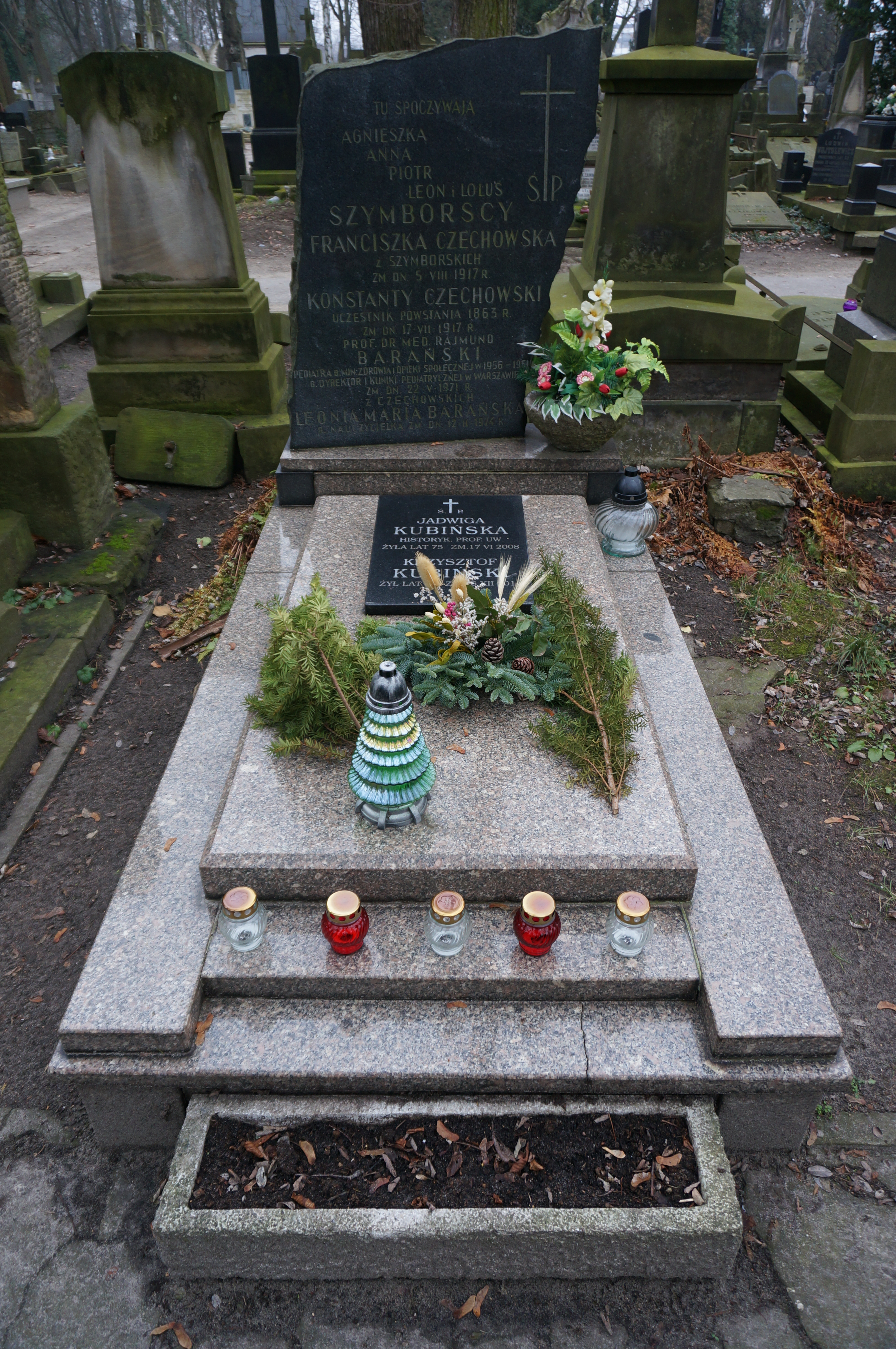 Rajmund Barański's grave at the Powązki Cemetery (section O, row 5, grave 28, 29)